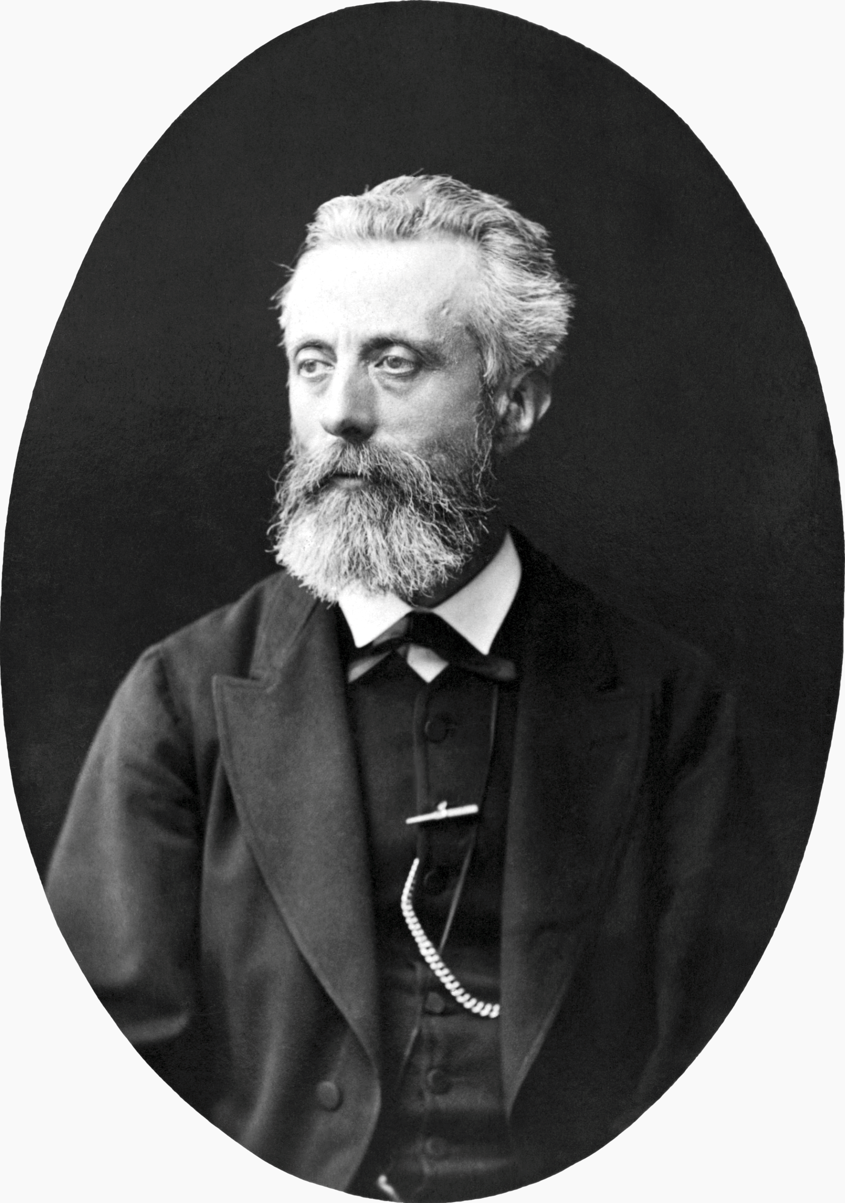 Léon Richer (1824–1911), French journalist, free-thinker and feminist.